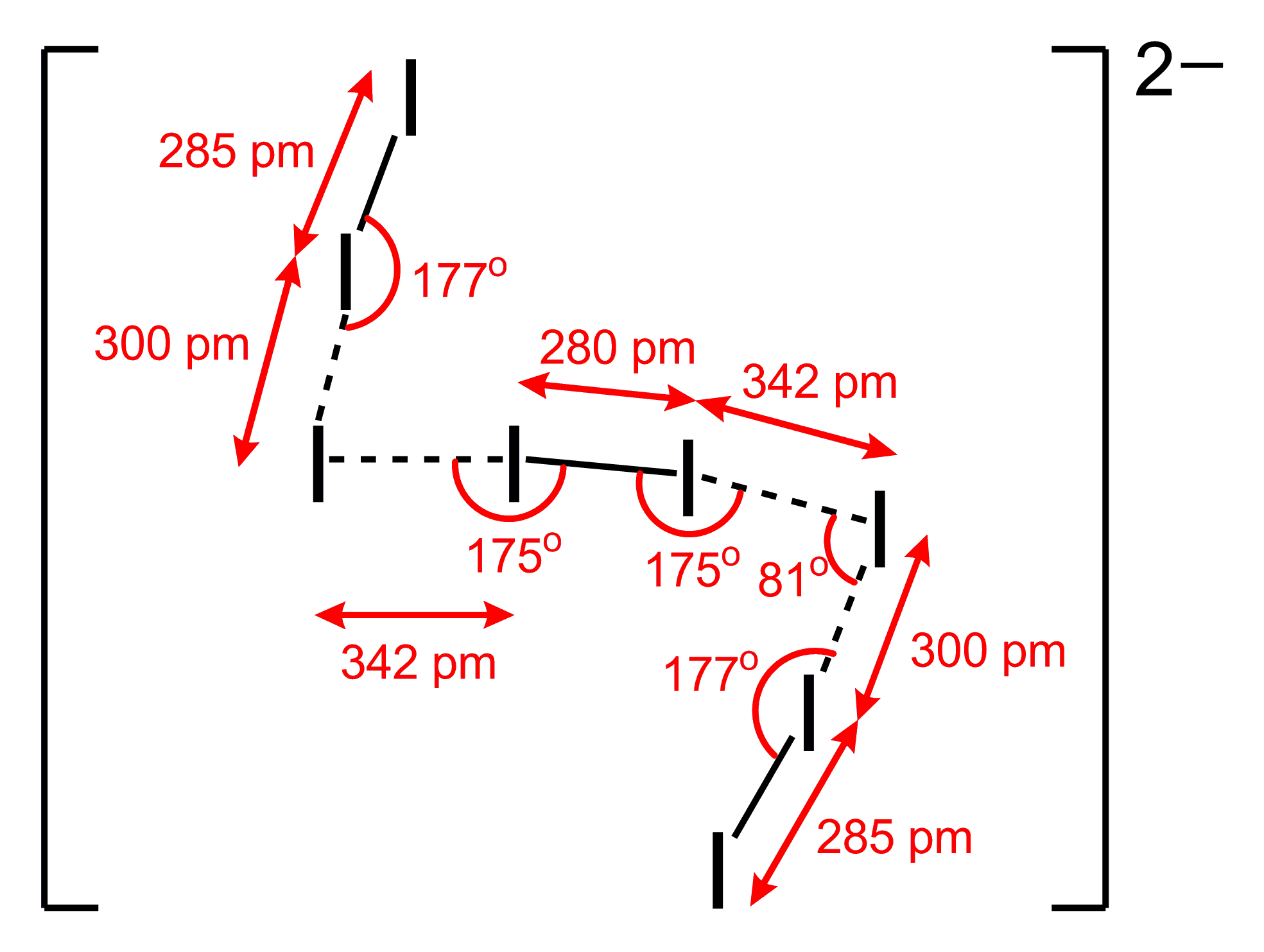 structure of I82− dianion